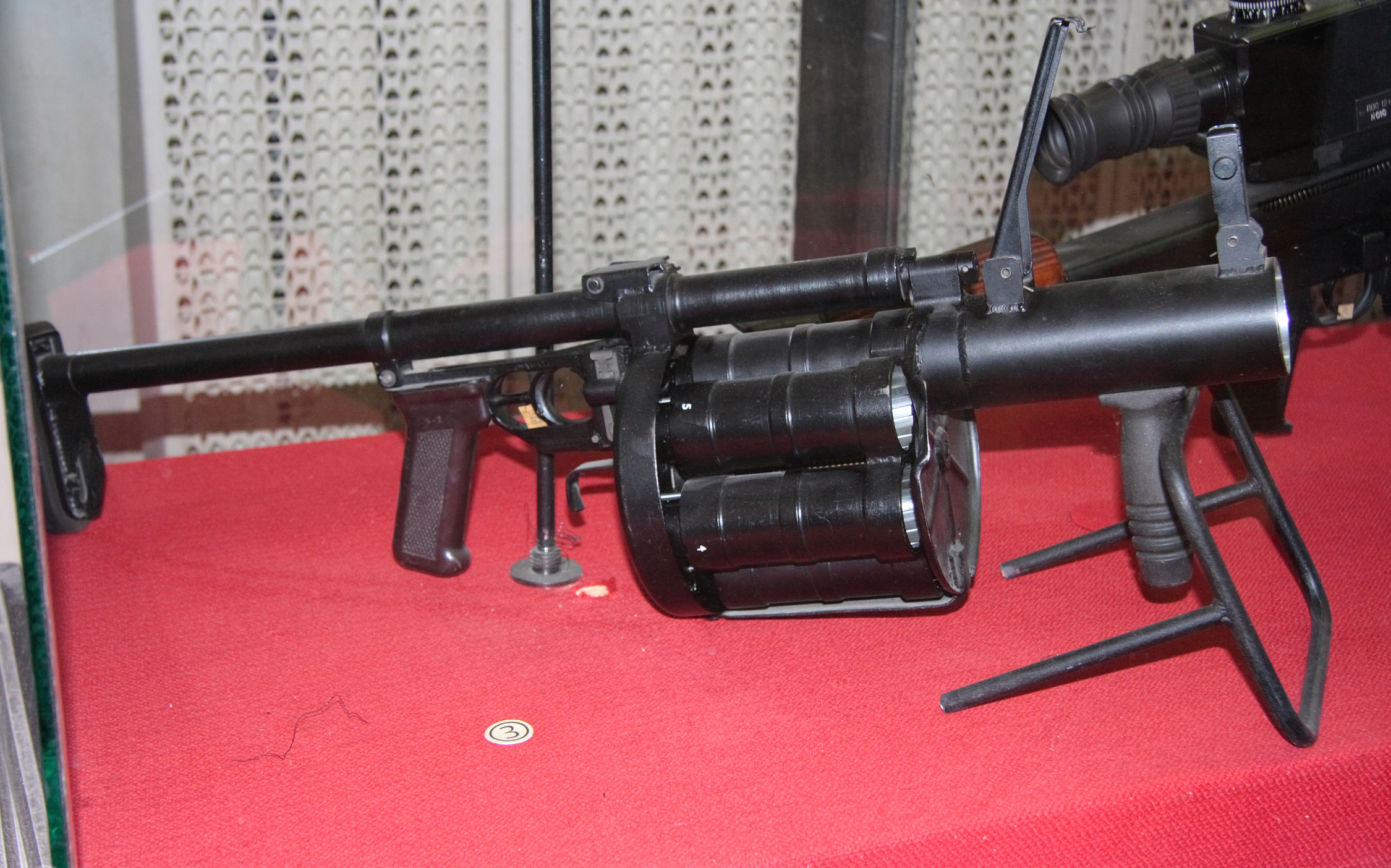 RG-6 in Tula State Arms museum